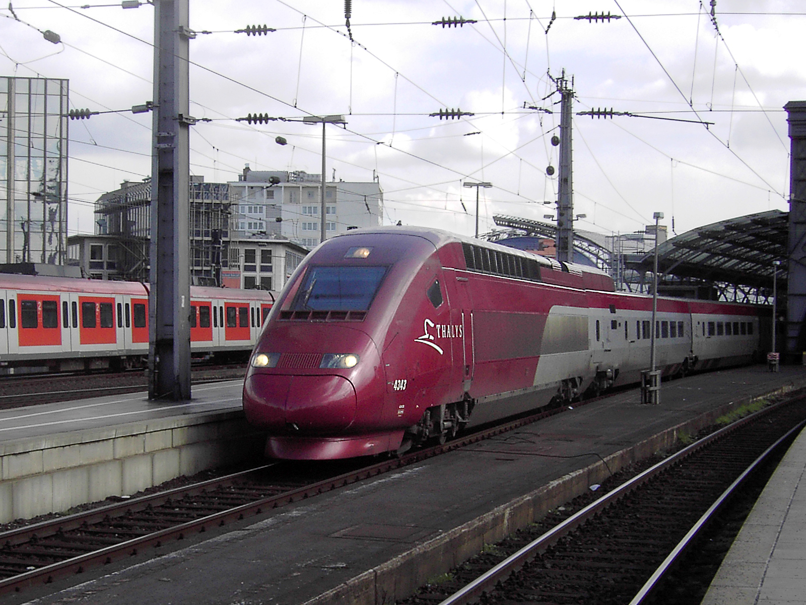 Thalys PBKA trainset 4343 leaving Cologne Central station